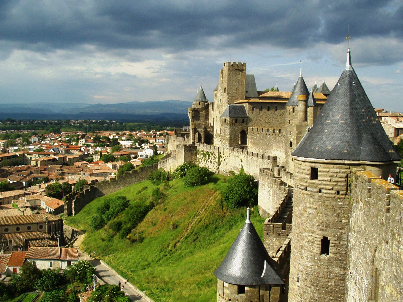 Carcassonne, Castle walls